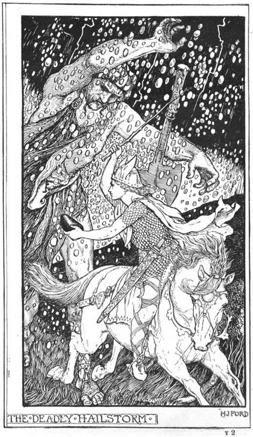 Sigurd riding Gullfaxi and girt with sword Gunnföder, fending giant in pursuit with magic hailstorm by striking stick against magic stone. Icelandic folktale. Illustr. by H. J. Ford, captioned: "The Deadly Hailstorm"